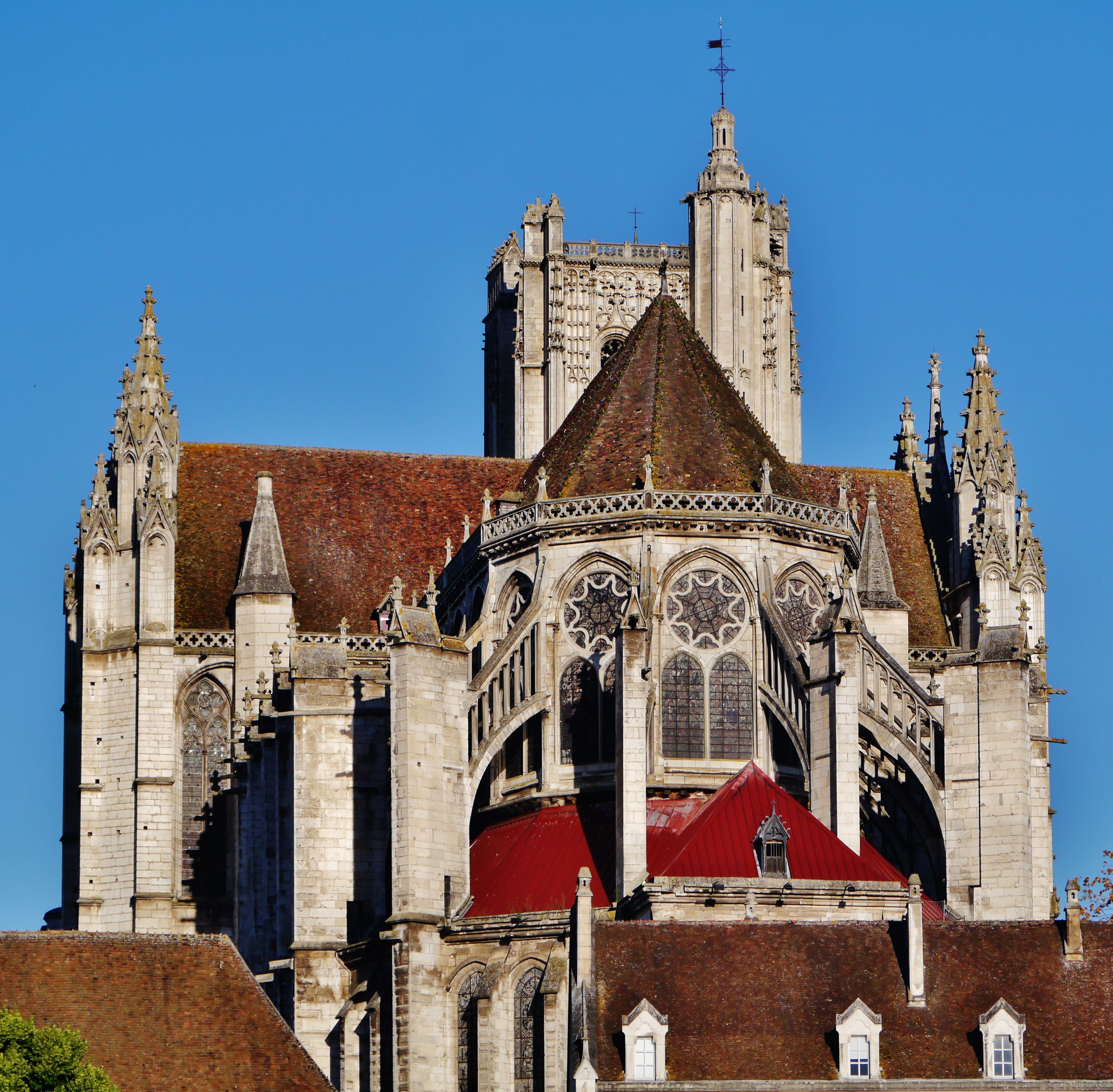 Choir of the Cathedral of St. Stephen, Auxerre, Département of Yonne, Region of Burgundy (now Burgundy-Franche-Comté), France